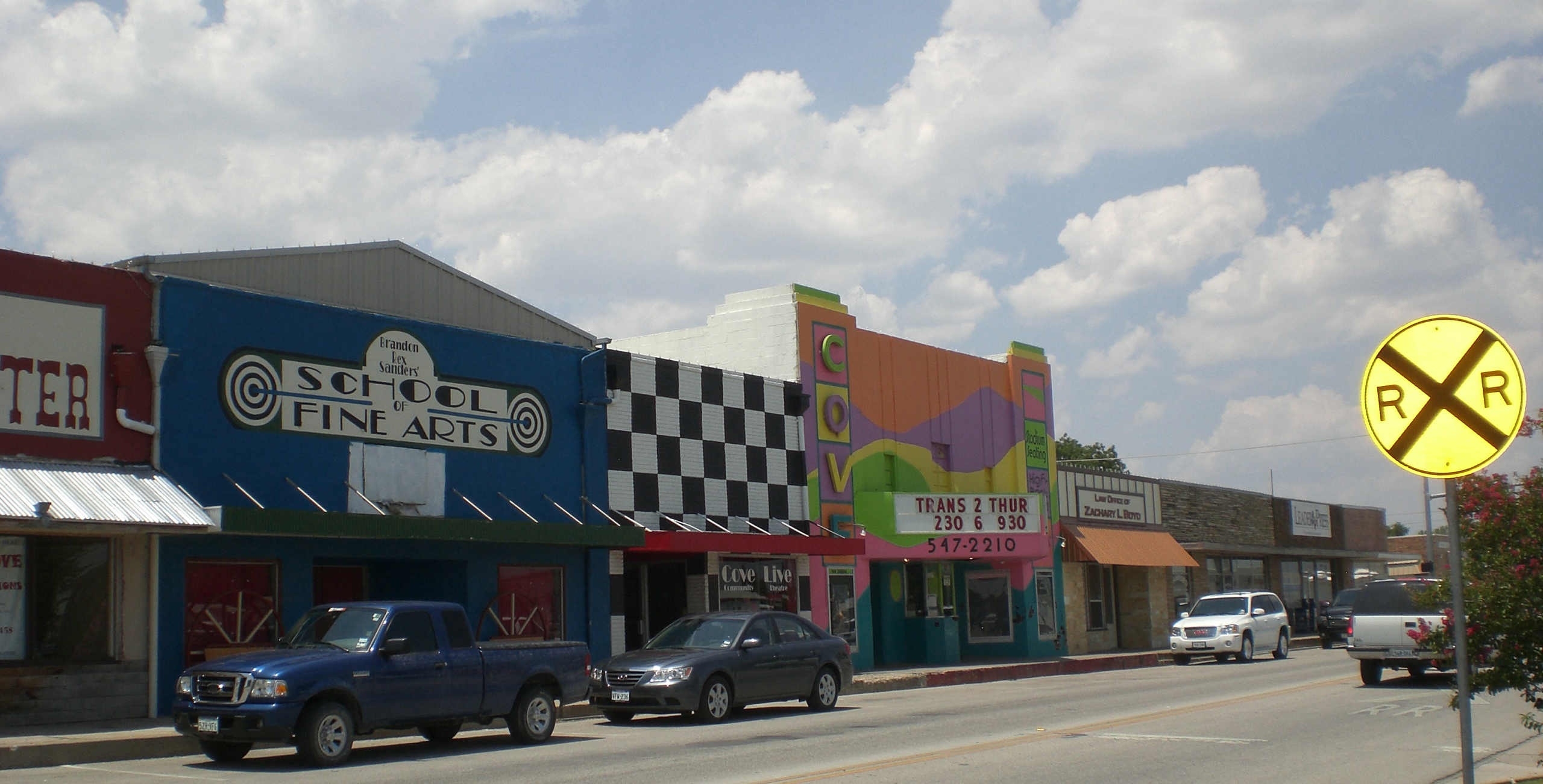 View of Copperas Cove downtown: Avenue D between Main Street and 1st Street